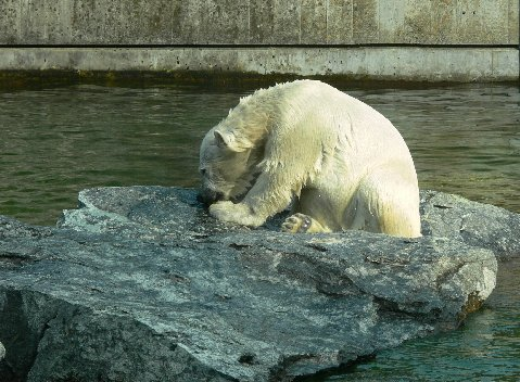 Young polar bear Wilbär (* 10.Dec.2007 in Wilhelma, Stuttgart). Foto: Septembär 2008